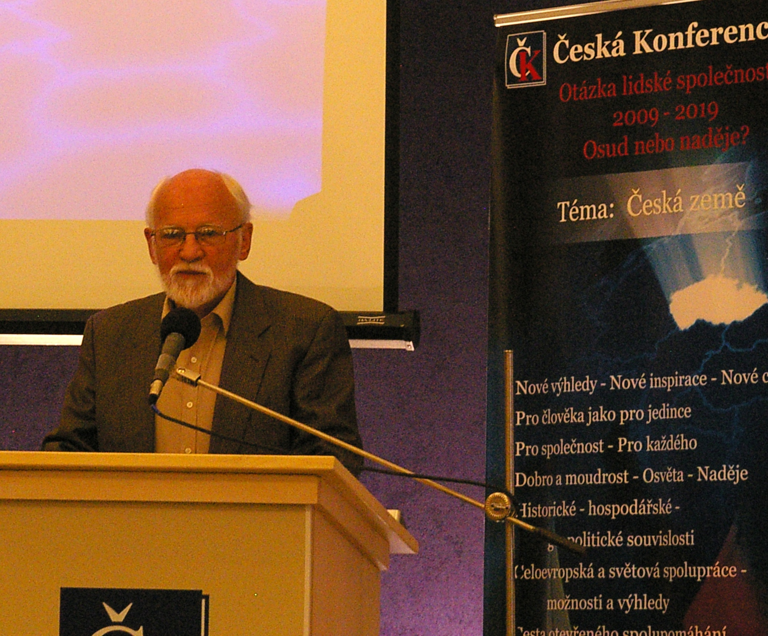 Vladimír Ondruš Česky: Vladimír Ondruš na České Konferenci v Poděbradech